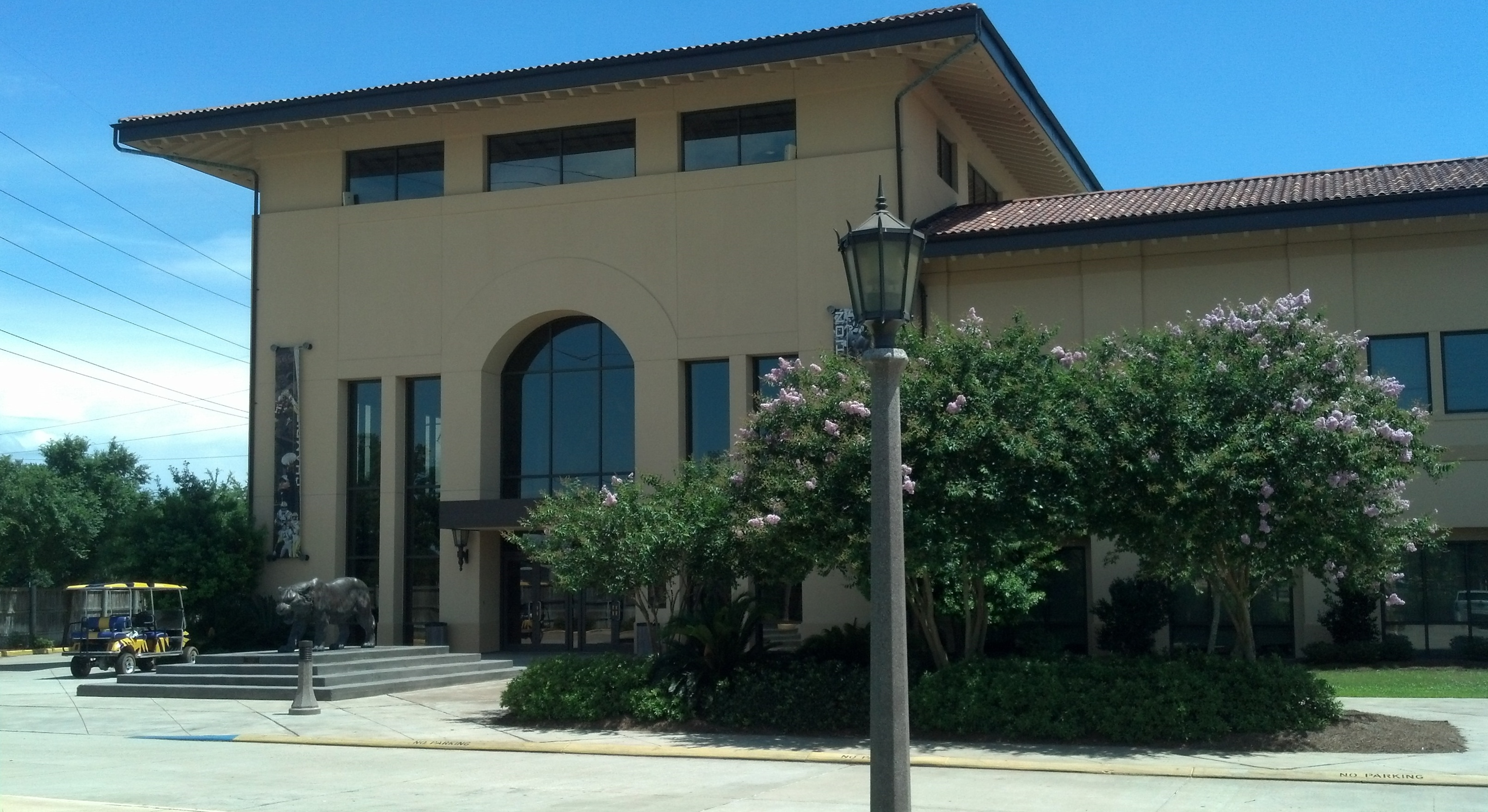 LSU Football Operations Center (Baton Rouge, LA)